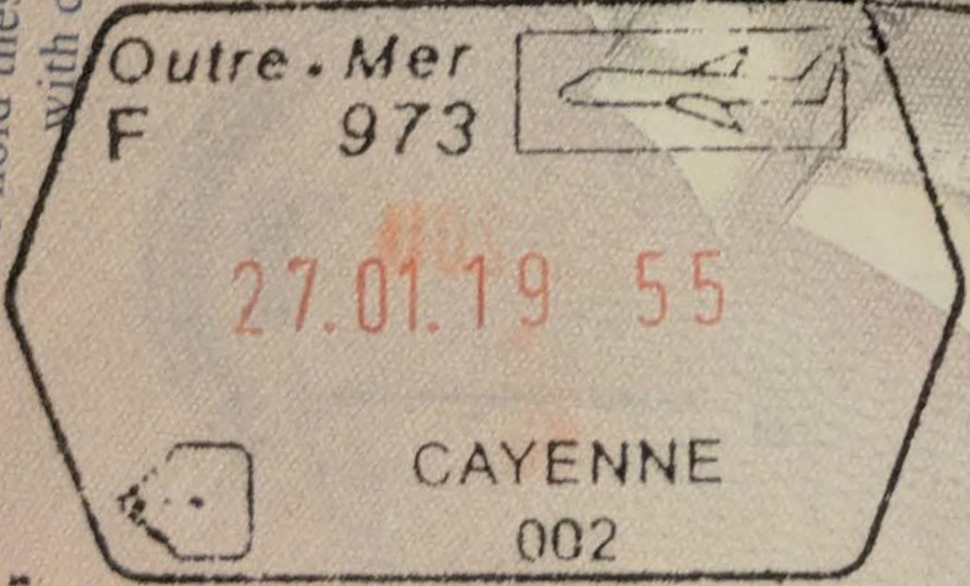 Stamp exiting French Guiana at the airport in Cayenne, in a US passport